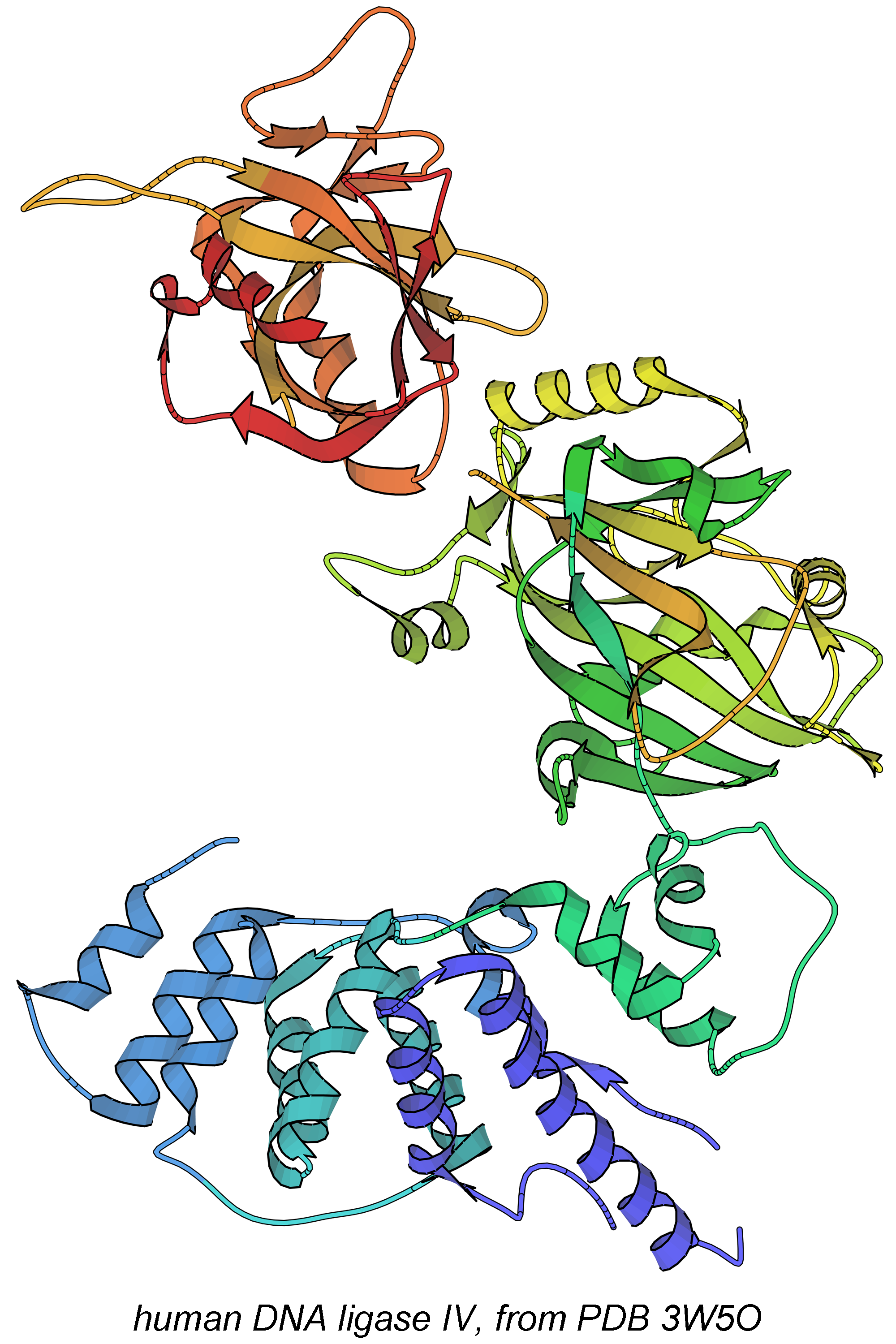 Ribbon schematic of the 3-domain enzyme of human DNA ligase IV, cored blue to red from N- to C-terminus. Image made in KiNG, from PDB file 3W5O.